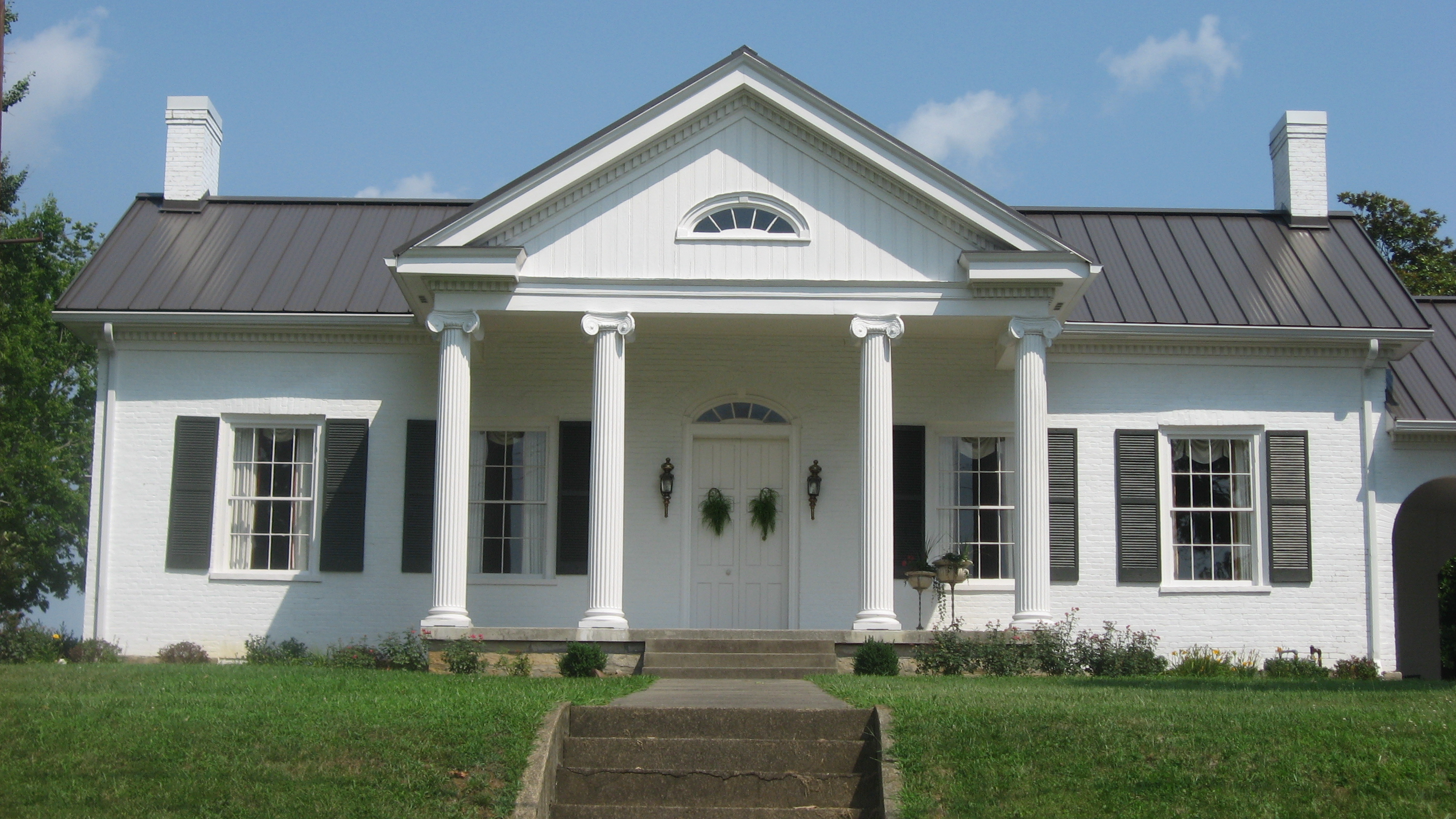 Central portion of the front of the William Hobson House, located at 102 S. Depot Street in Greensburg, Kentucky, United States. Built in 1823, it is listed on the National Register of Historic Places.